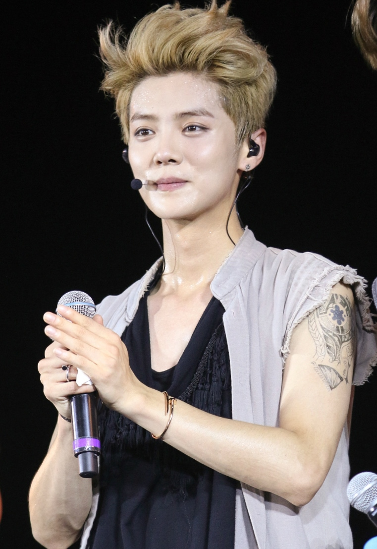 Luhan at the EXO The Lost Planet in Jakarta on September 6, 2014.